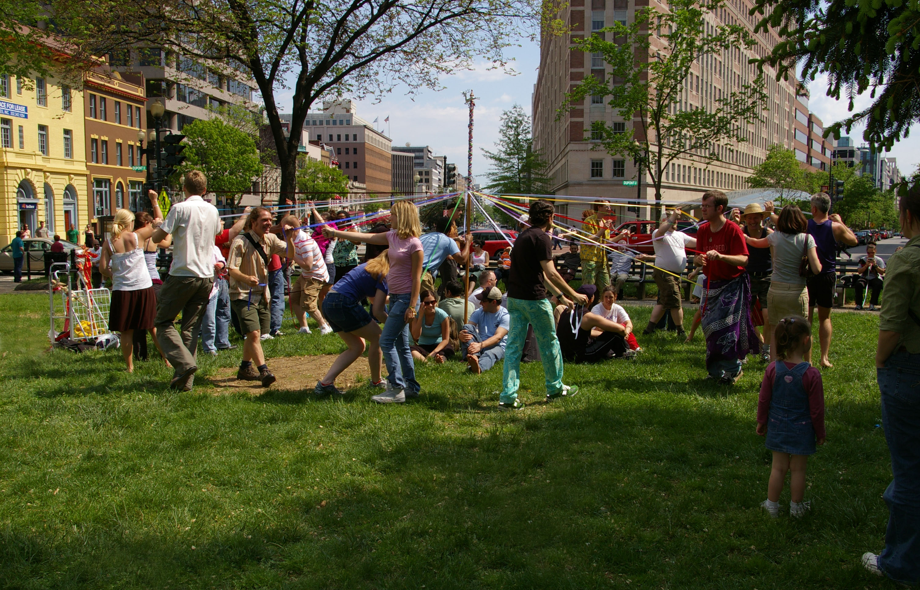 Maypole in Dupont Circle, Washington, April 2007